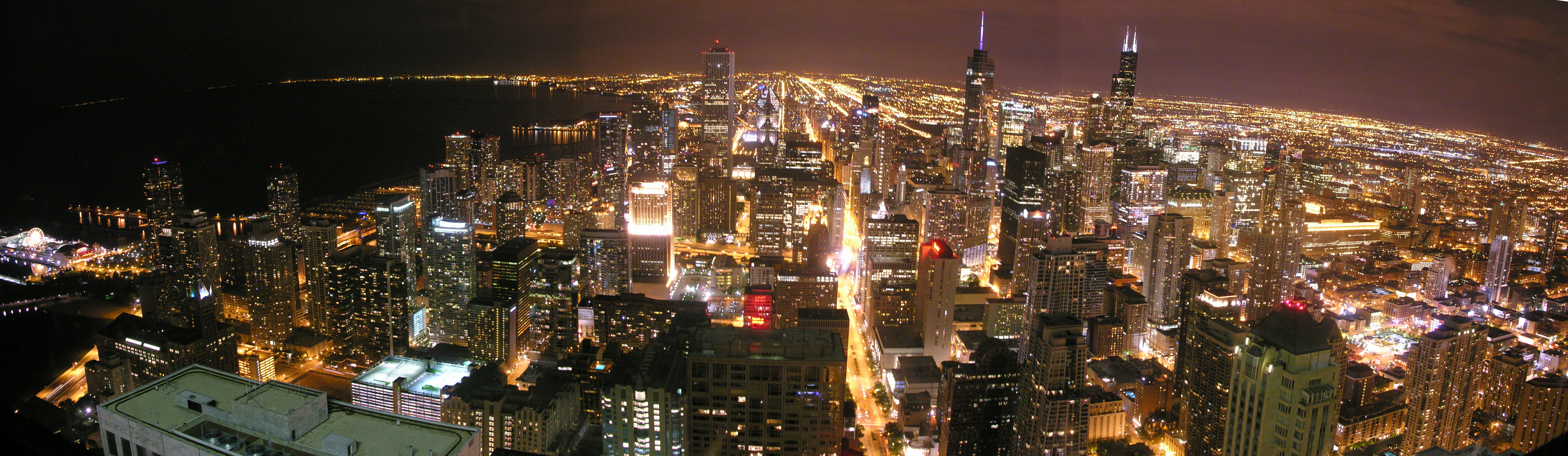 Chicago from the 96th floor of John Hancock Center.